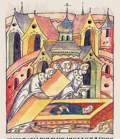 Death of Agafia of Kiev, widow of Konstantin Vsevolodovich